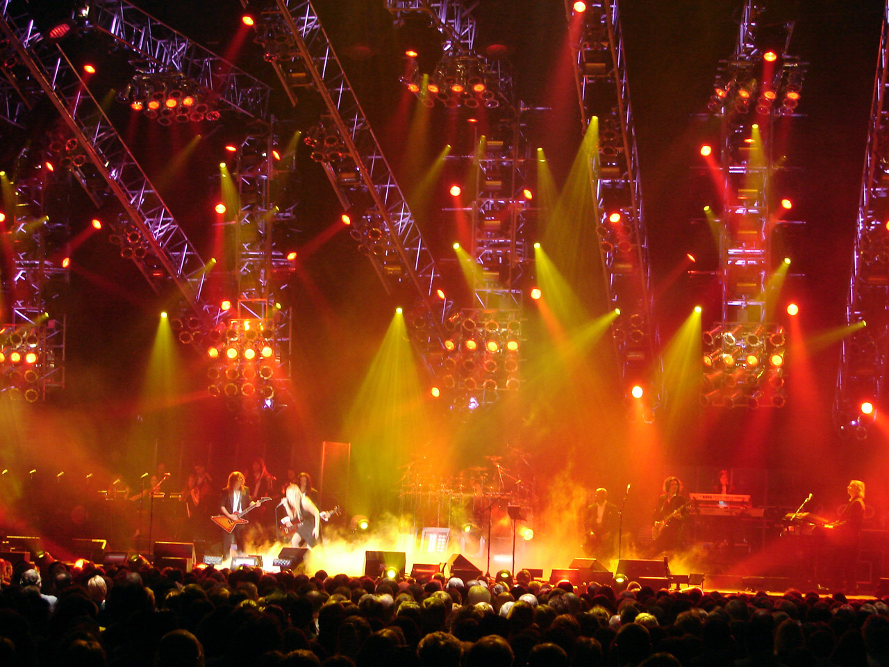 Shots from the Hershey GIANT Center performance of the Trans-Siberian Orchestra, November 2006.